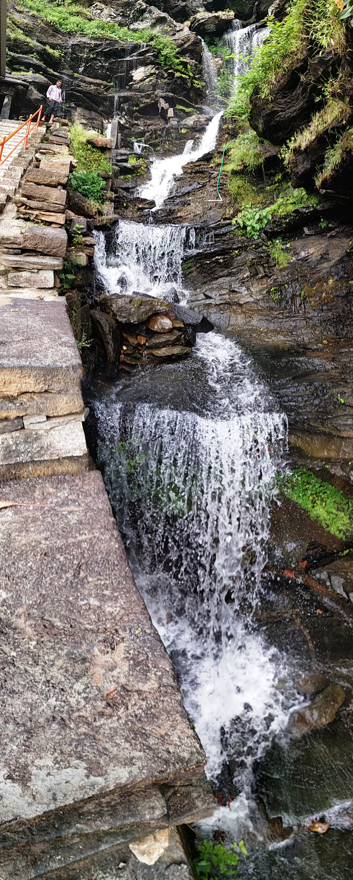 ಸರಳ ಹೊಳೆ